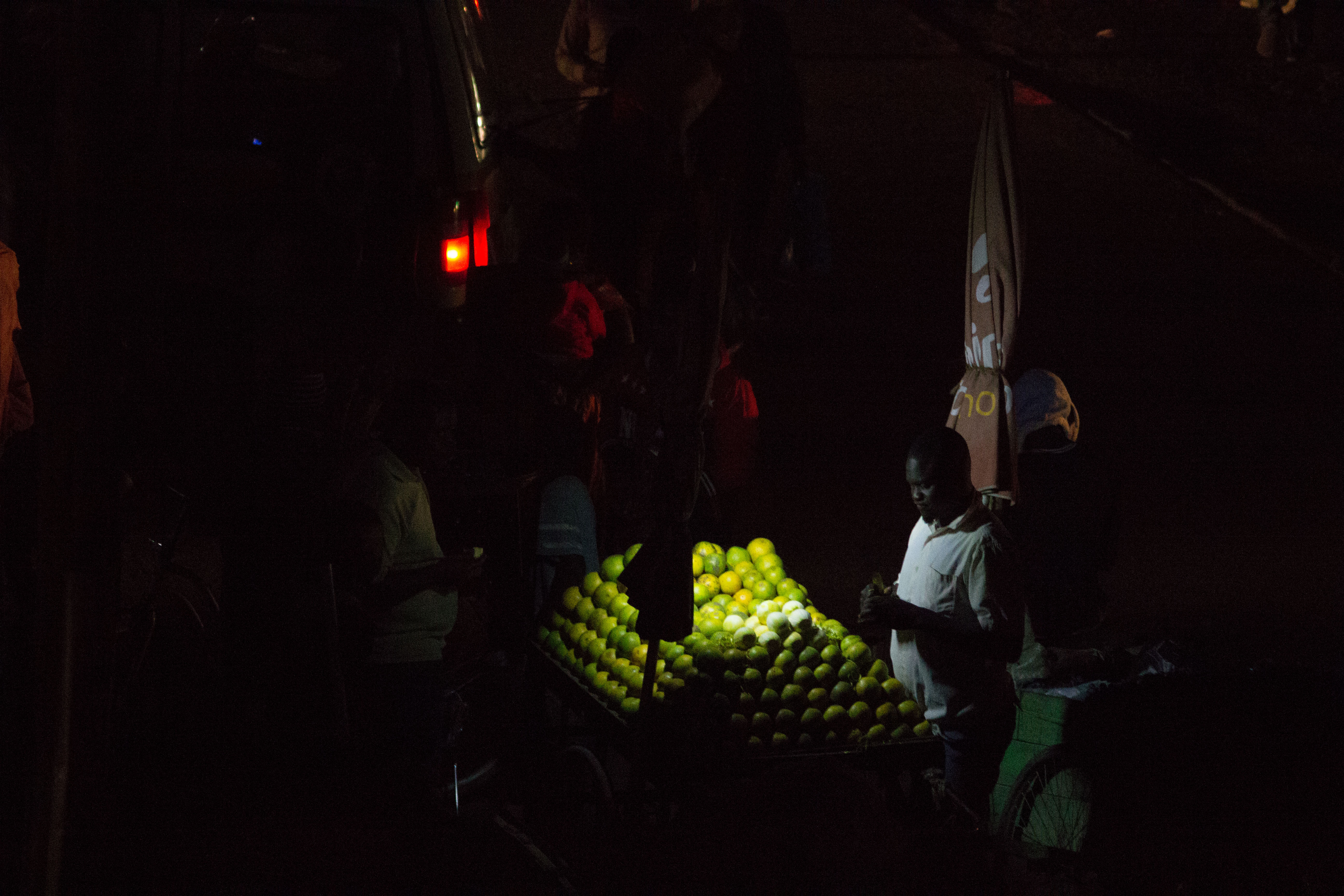 This is an image of "African people at work" from Tanzania